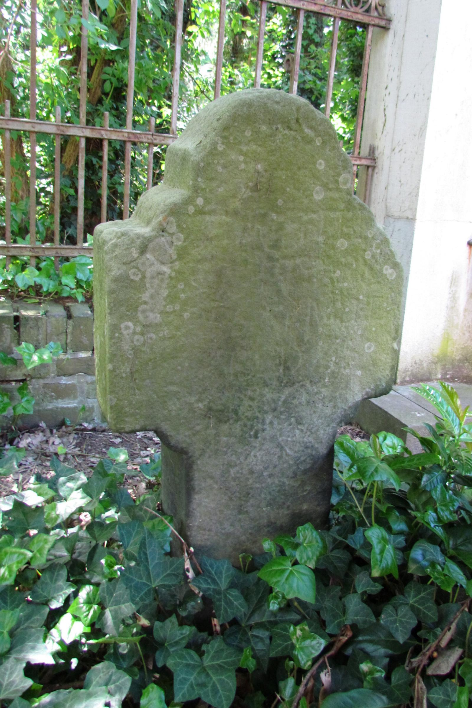 This is a photograph of an architectural monument.It is on the list of cultural monuments of Korschenbroich